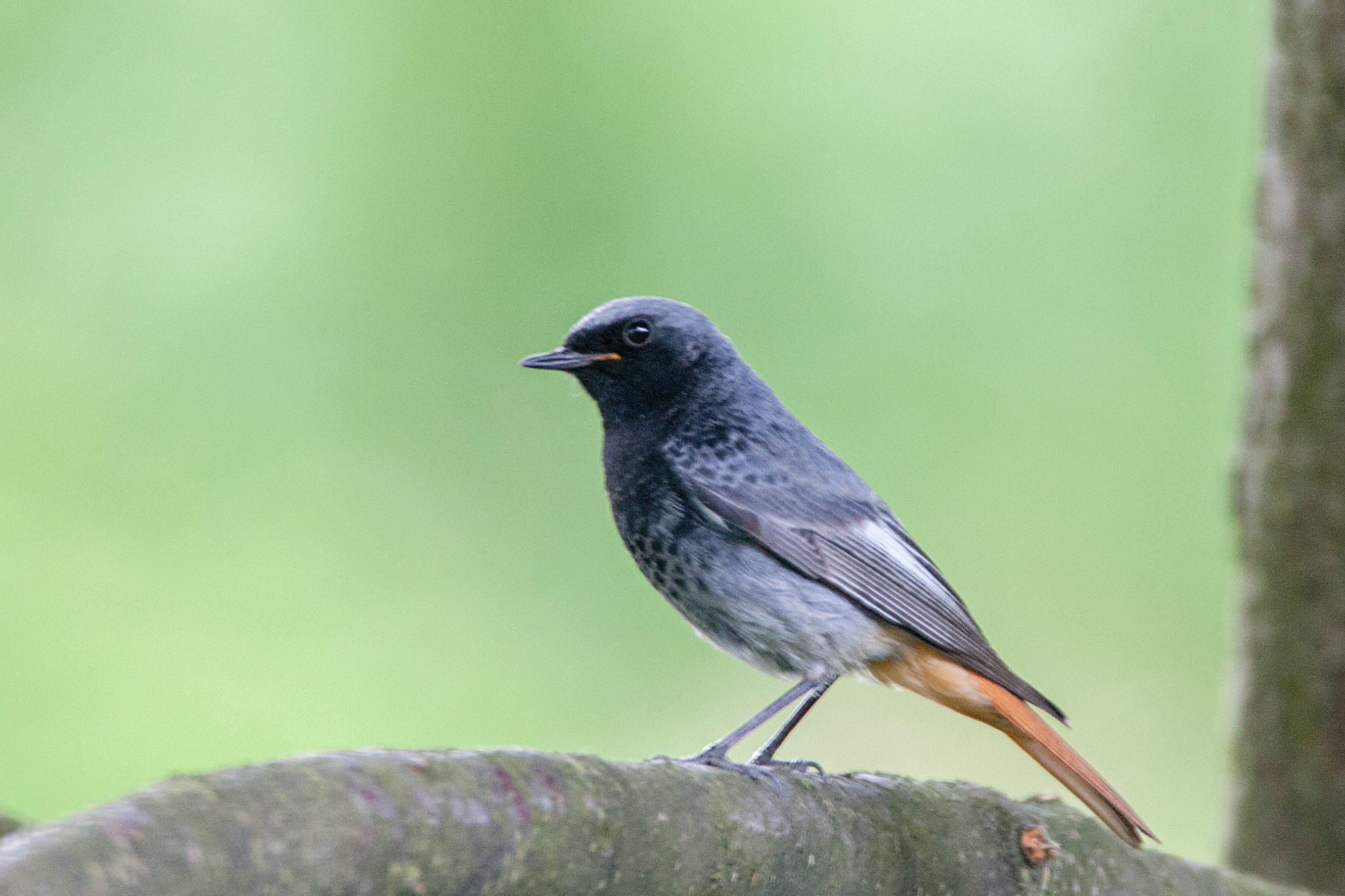 The Black Redstart, Lodz(Poland)